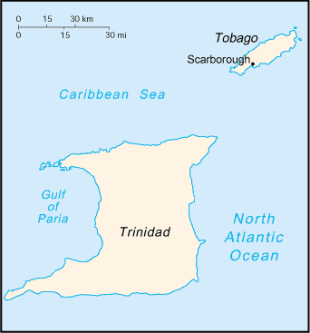 Scarborough, Tobago